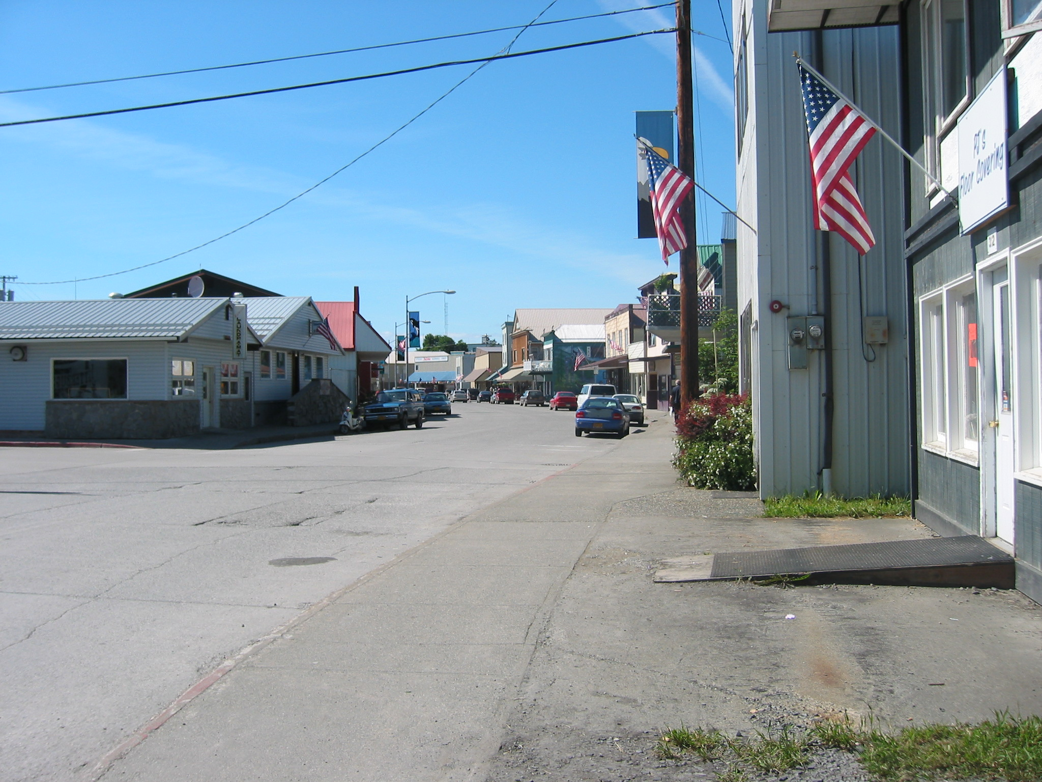 Downtown Wrangell, Alaska, looking north along Front Street by the Diamond “C” Cafe.